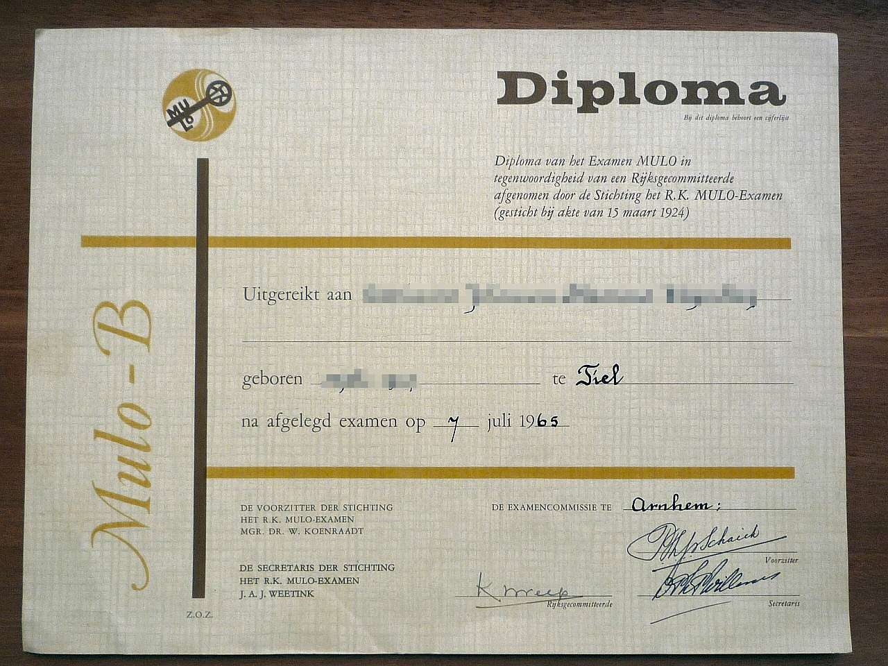 Diploma of Mulo-B 1965